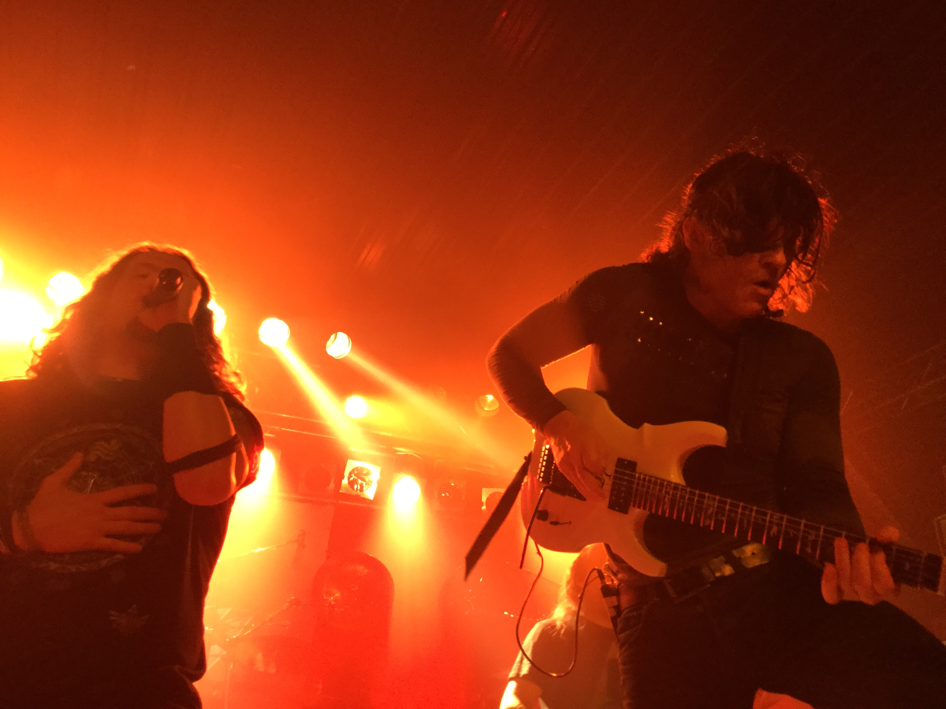 Luca Turilli's Rhapsody live in Munich (2016): Alessandro Conti and Luca Turilli